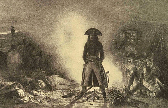 General Bonaparte, commander in chief of the Armée d'Italie